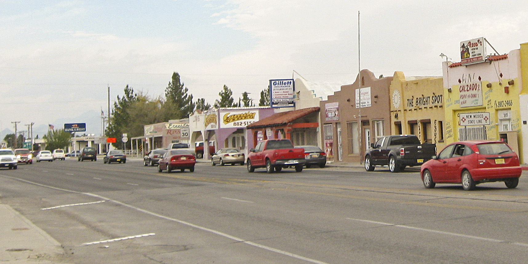 Main Street of Anthony, New Mexico, photographed looking north from just south of the New Mexico-Texas state line.